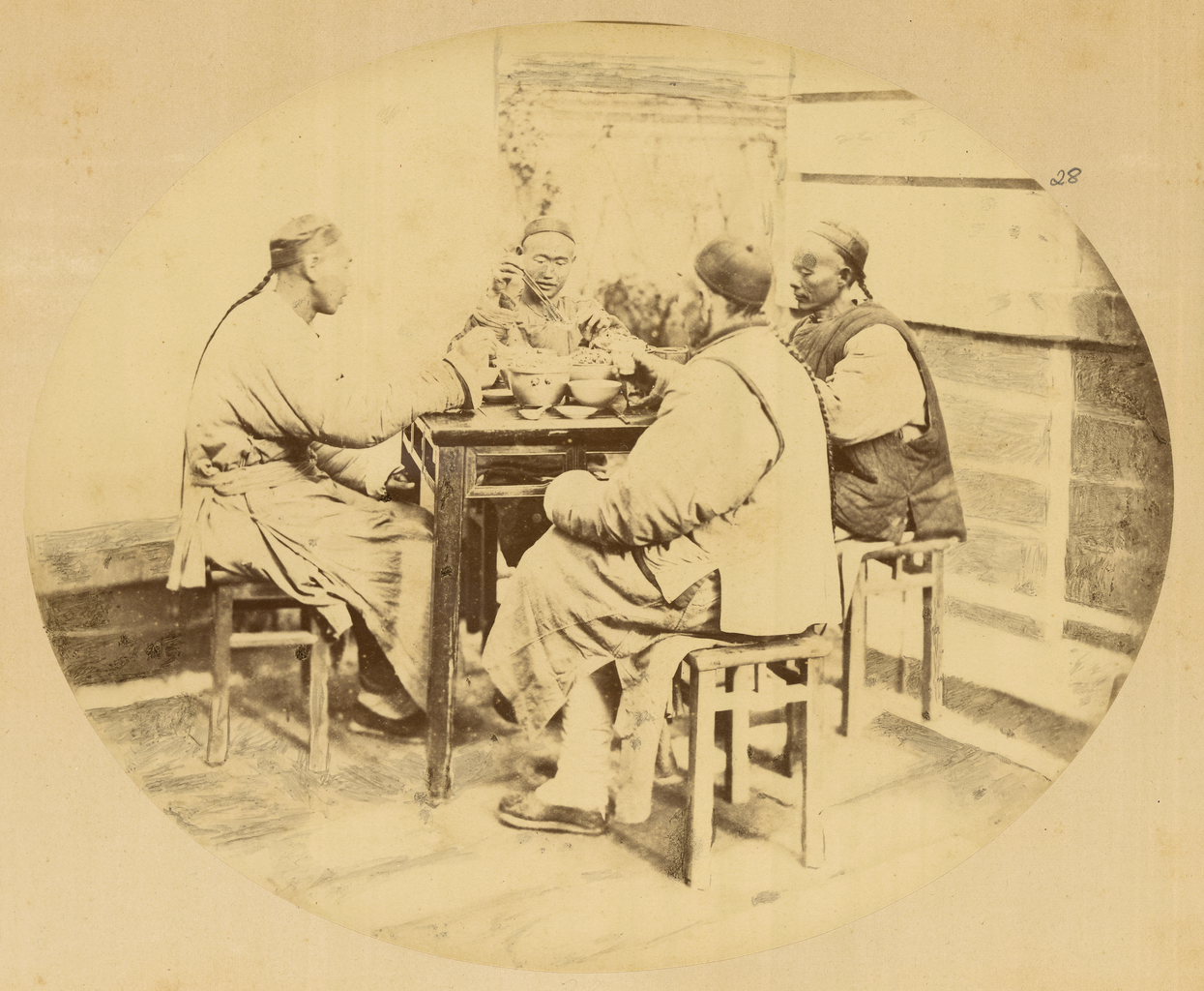 In 1874-75, the Russian government sent a research and trading mission to China to seek out new overland routes to the Chinese market, report on prospects for increased commerce and locations for consulates and factories, and gather information about the Dungan Revolt then raging in parts of western China. Led by Lieutenant Colonel Iulian A. Sosnovskii of the army General Staff, the nine-man mission included a topographer, Captain Matusovskii; a scientific officer, Dr. Pavel Iakovlevich Piasetskii; Chinese and Russian interpreters; three non-commissioned Cossack soldiers; and the mission photographer, Adolf Erazmovich Boiarskii. The mission proceeded from Saint Petersburg to Shanghai via Ulan Bator (Mongolia), Beijing, and Tianjin, and then followed a route along the Yangtze River, along the Great Silk Road through the Hami oasis, to Lake Zaysan, back to Russia. Boiarskii took some 200 photographs, which constitute a unique resource for the study of China in this period. Most of the photographs are included in this album, which later became part of the Thereza Christina Maria Collection assembled by Emperor Pedro II of Brazil and given by him to the National Library of Brazil. Chinese; Dinners and dining; Memory of the World; Men; Table